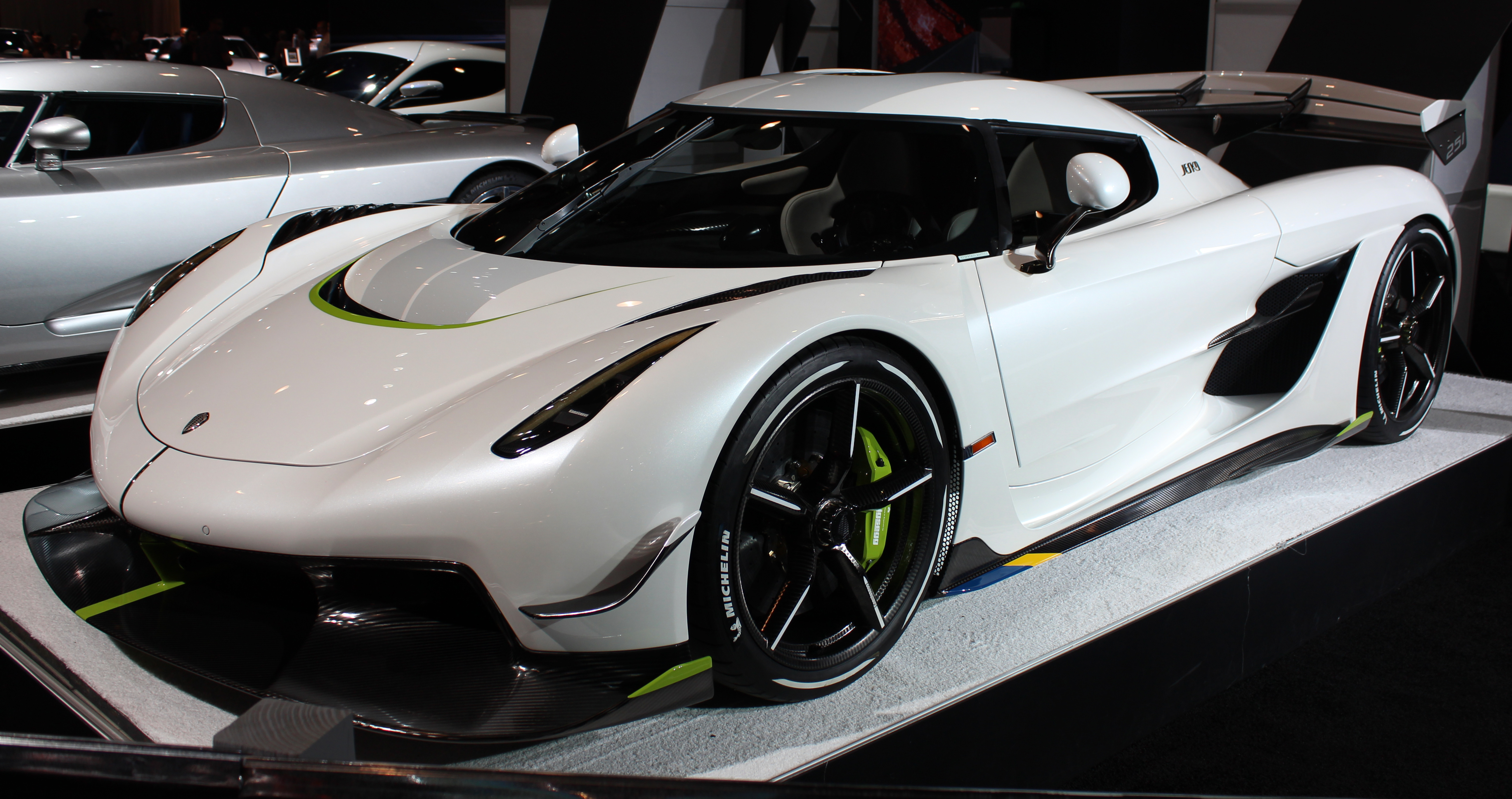 A Koenigsegg Jesko photographed at the exotic exhibit, during the 2019 New York International Auto Show, in Hudson Yards, Manhattan, NYC